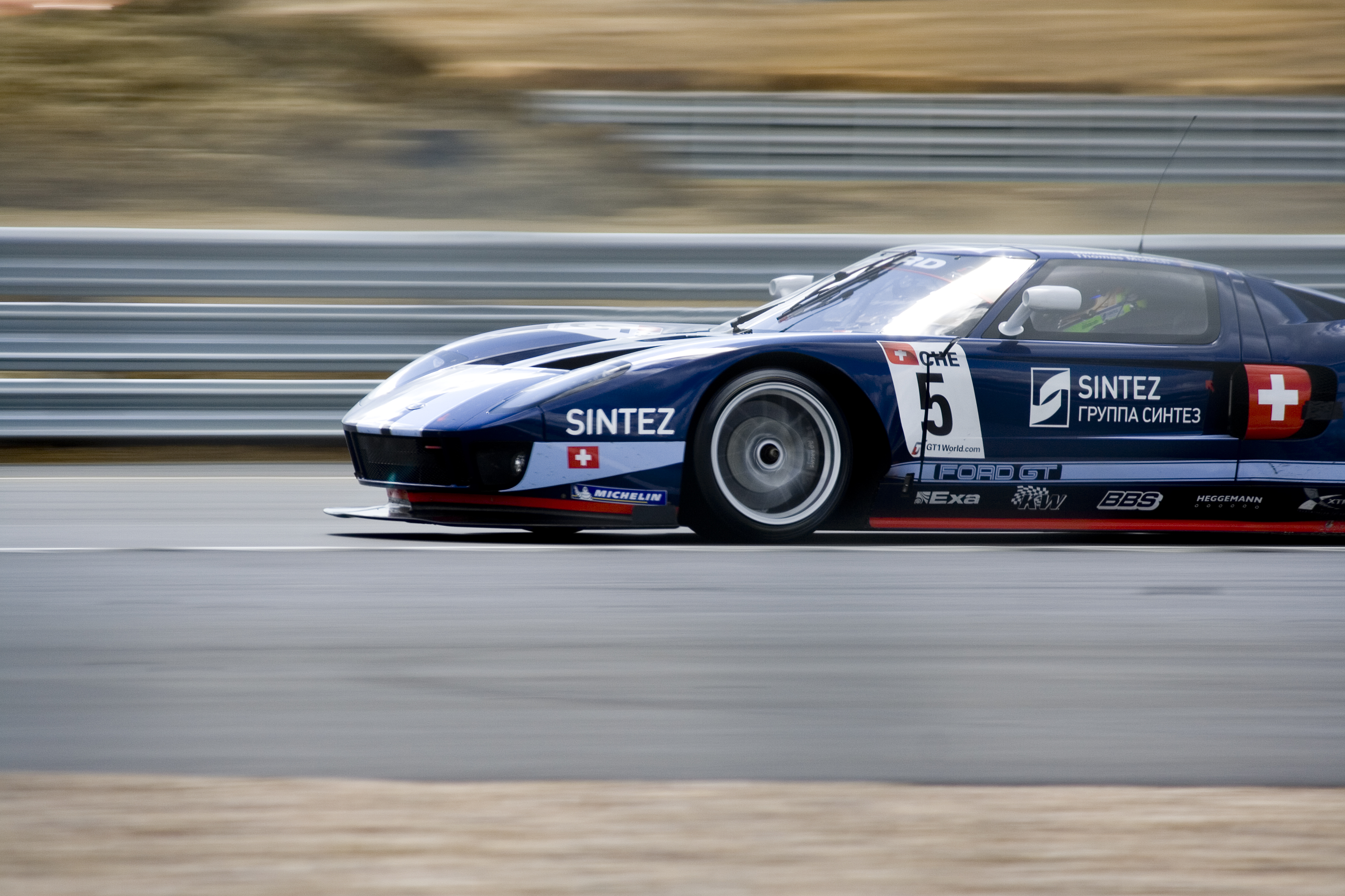 FIA GT1 Qualifying - Ford GT (Matech Competition)